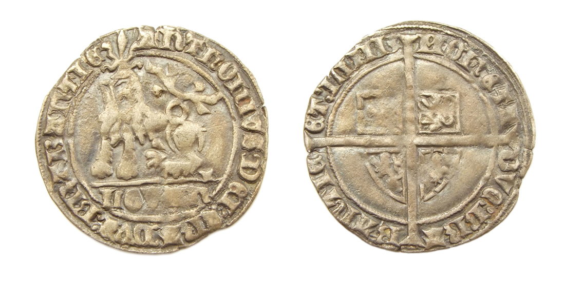 Duchy of Brabant, Leuven, AR Gros or ½ Botdrager. Struck under Anton of Burgundy (1406-1415). Obverse: Seated lion with helmet to left, LOVAN in ex. Legend: ANTHONIVS:DEI:GRA:DVX:BRABANTIE. Reverse: Long cross with Burgundian shield.